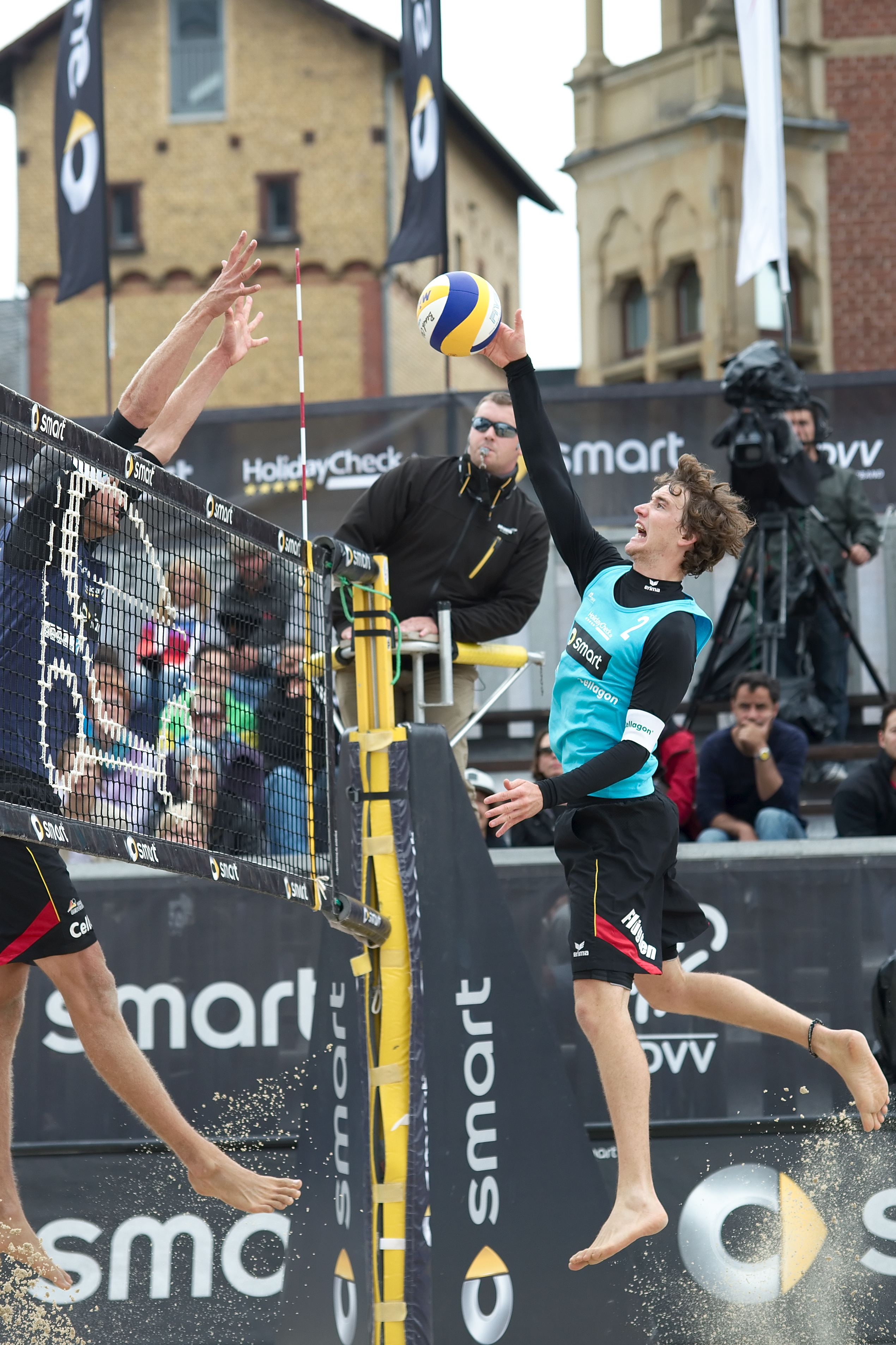 The German beach volleyball player Lars Flüggen midair during an attack against Armin Dollinger at the Smart Beach Tour tournament in Cologne 2011.